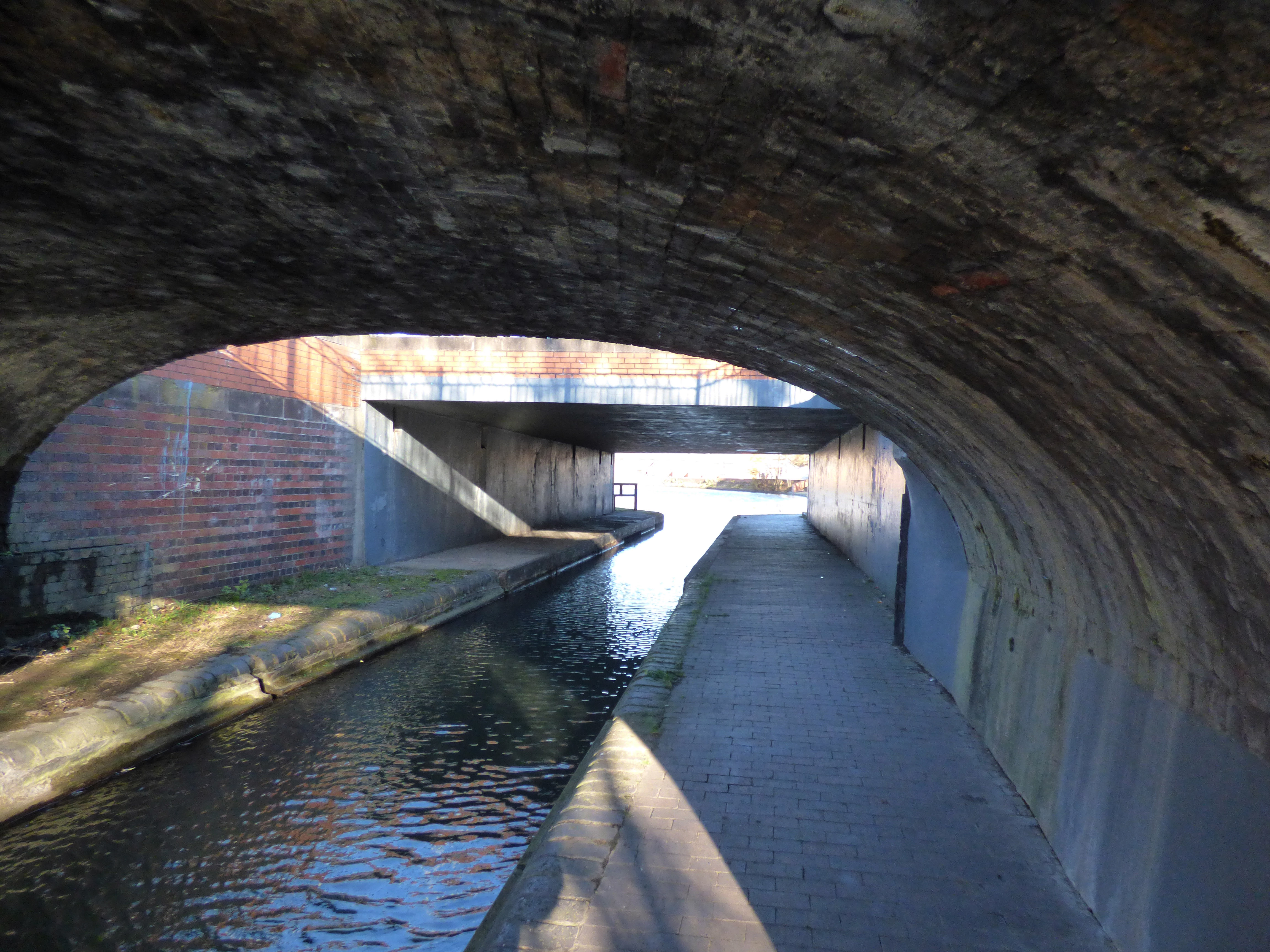 I got onto the Birmingham Canal Navigations Old Main Line in Tipton at a bridge on Baker Street then walked as far as the Tipton Green Bridge. And then past Coronation Gardens to the Owen Street Bridge. It was a nice and sunny day but was very cold! The Tipton Green Bridge. It leads to Tipton Green Junction. The modern bridge carries Park Lane West.